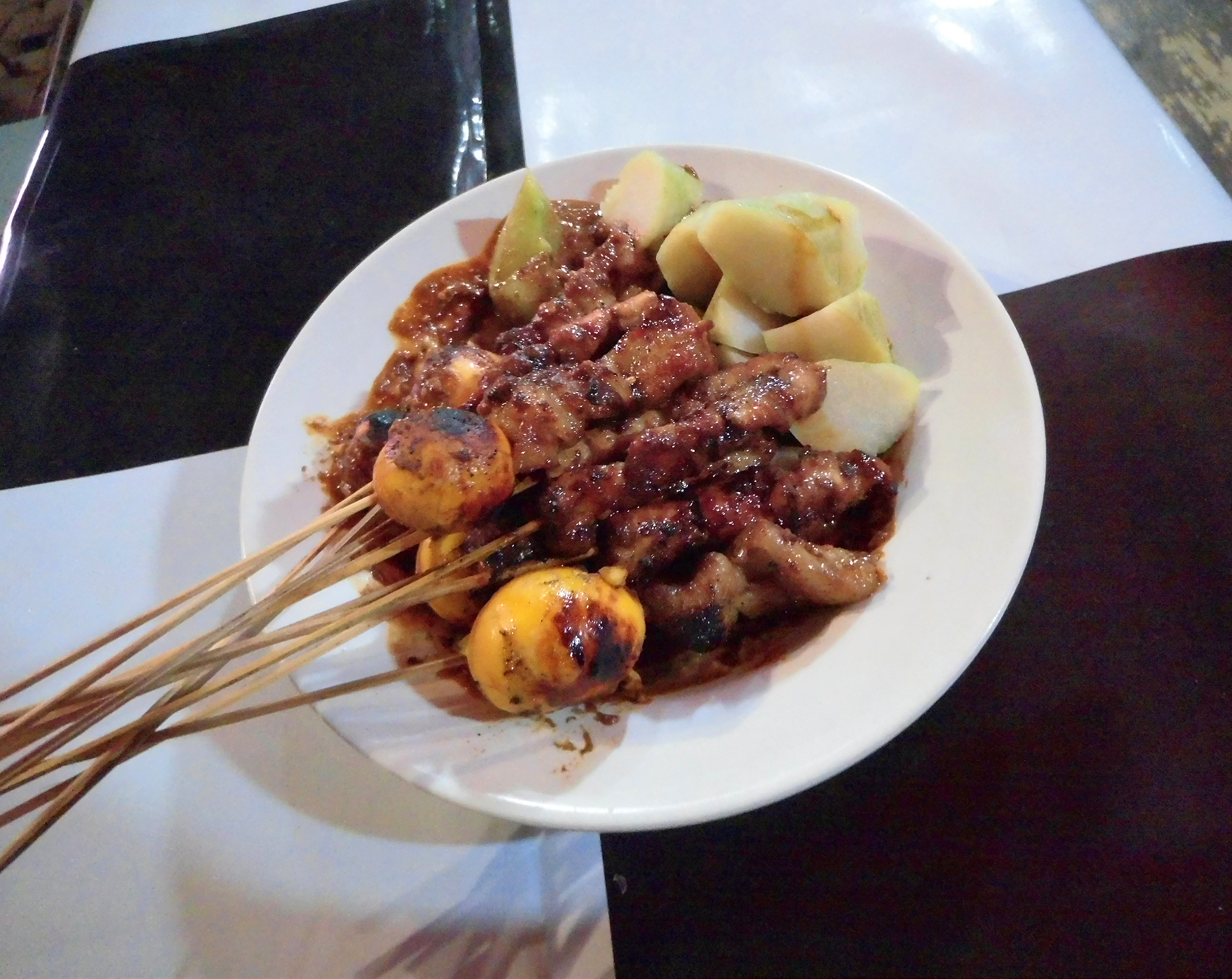 Sate ayam (chicken satay) served with peanut sauce and lontong compressed rice cake. Some of the satays has "uritan" or premature chicken egg on it. Served as street food in Jalan Sabang (Jl. H Agus Salim), Central Jakarta, Indonesia.